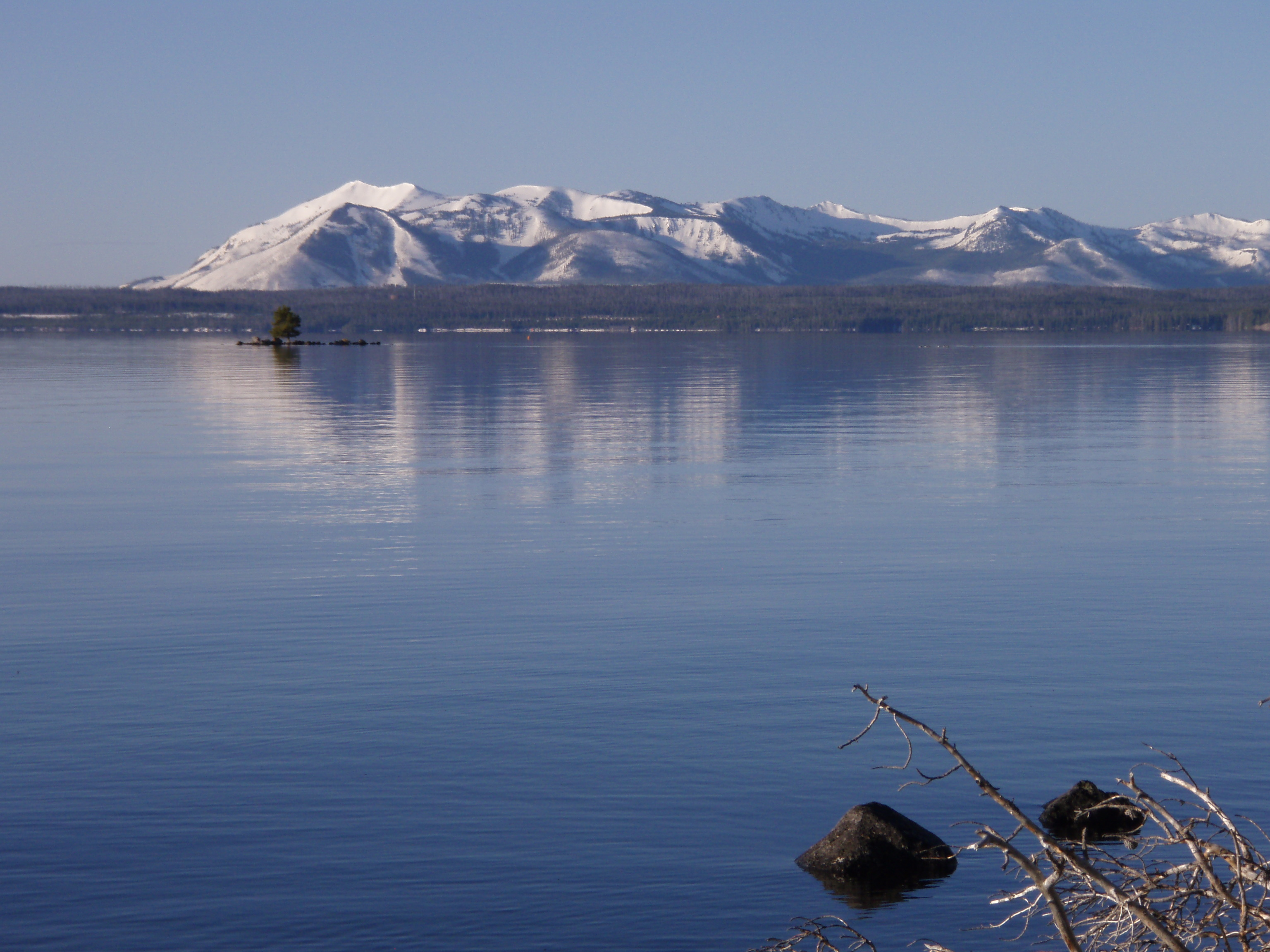 Mount Sheridan from West Thumb, Yellowstone Lake, June 15, 2011